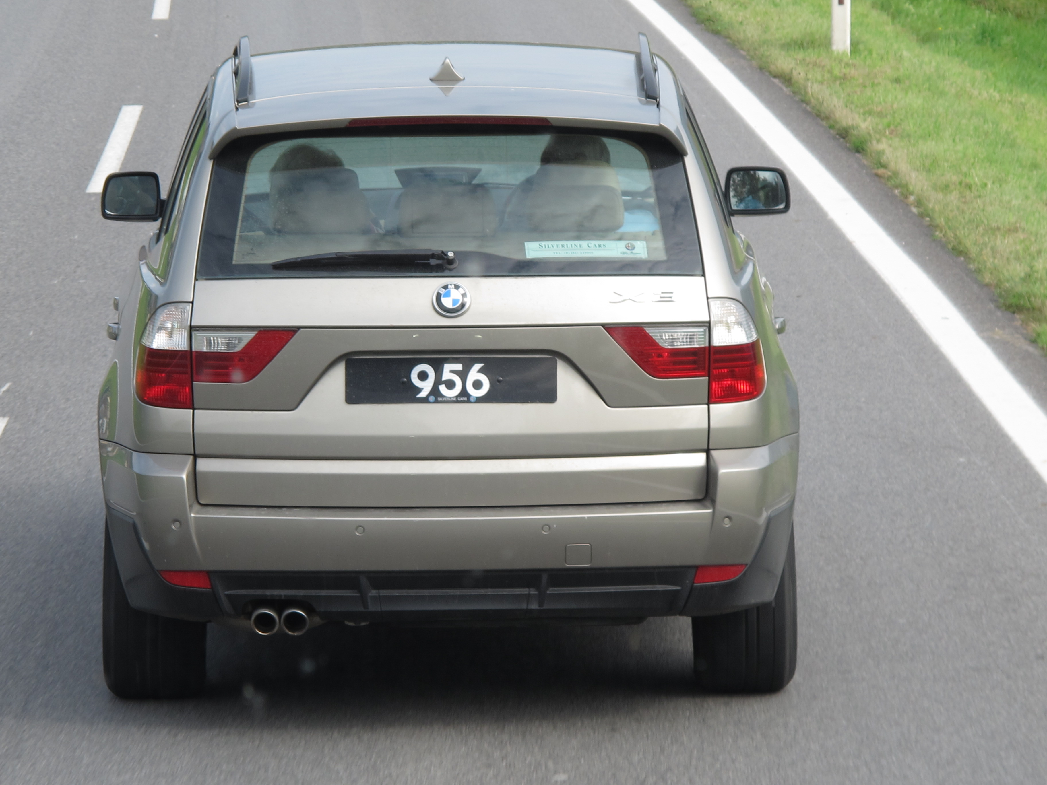 Number Plate 956 from Guernsey